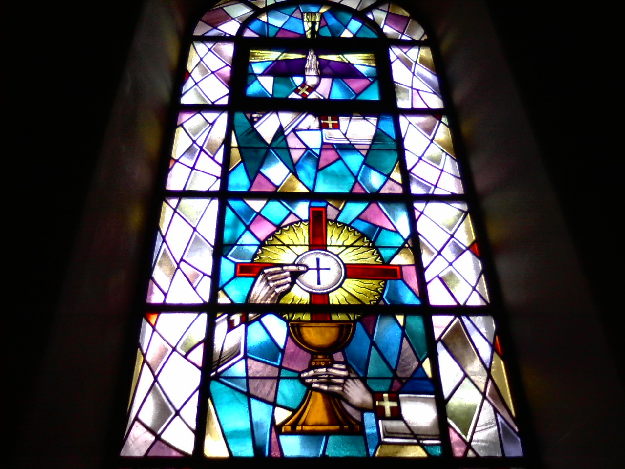 Window, St. William Upper Church, Philadelphia.